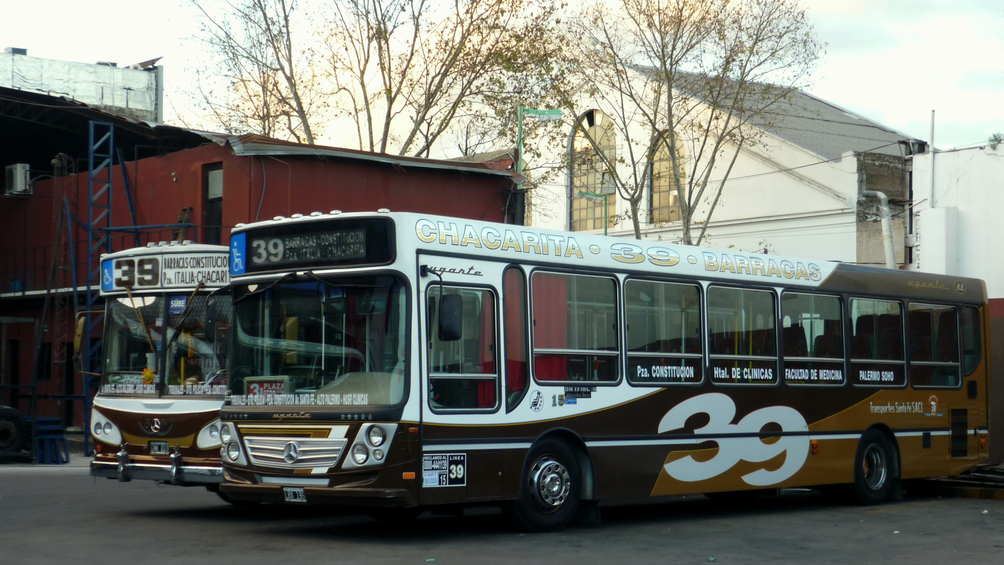 Colectivo Line 39 bus yard in Barracas, Buenos Aires, Argentina.